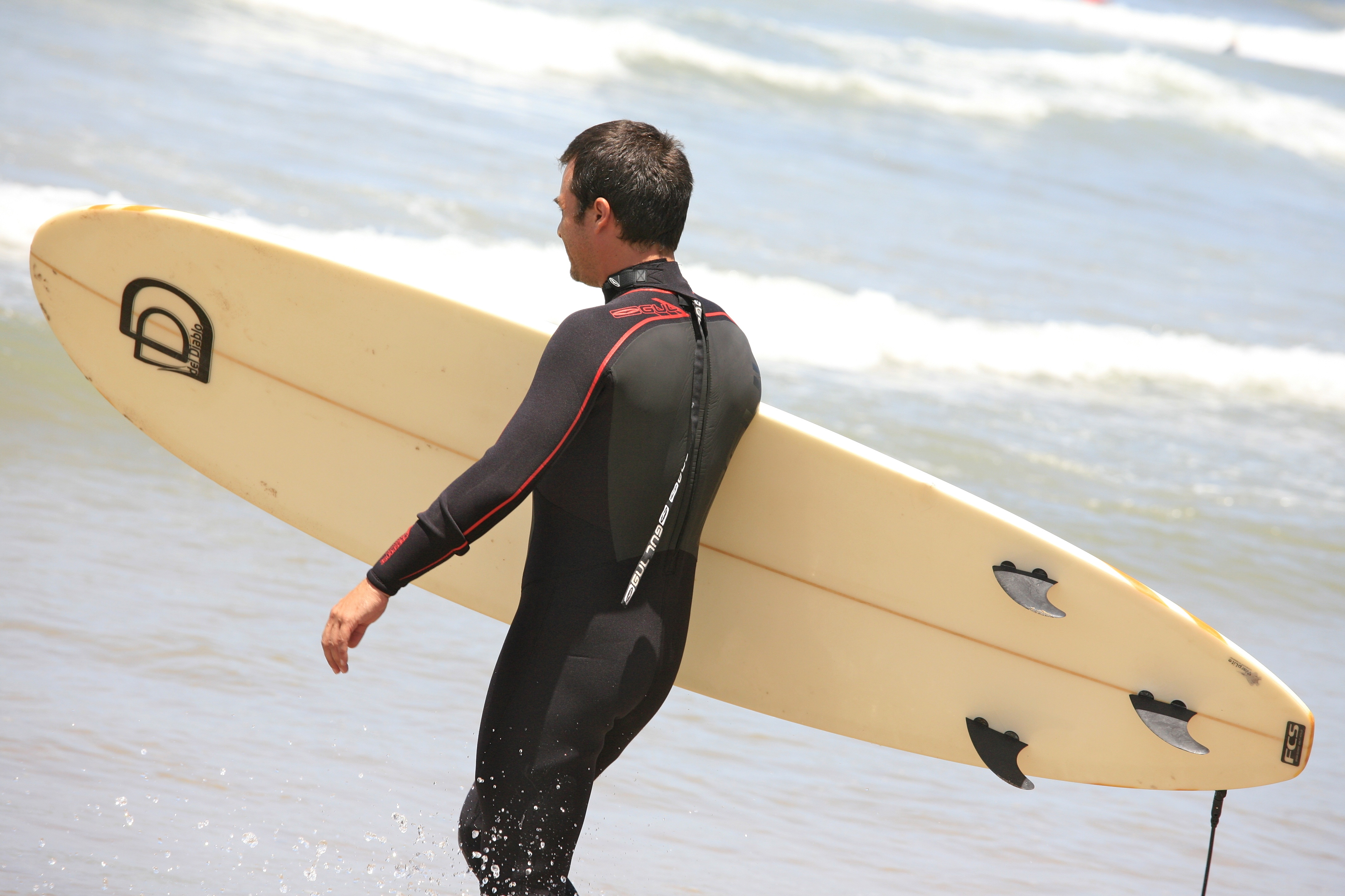 In for a Ride